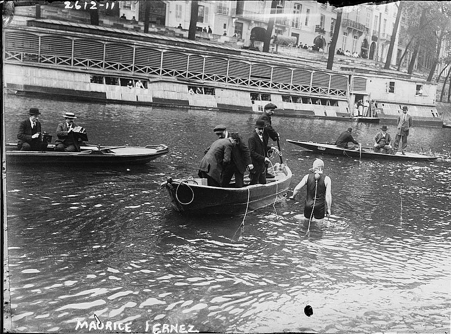 Maurice Fernez demonstrating his diving equipment in the Seine 20 August 1912.